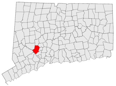 Location of Oxford, Connecticut